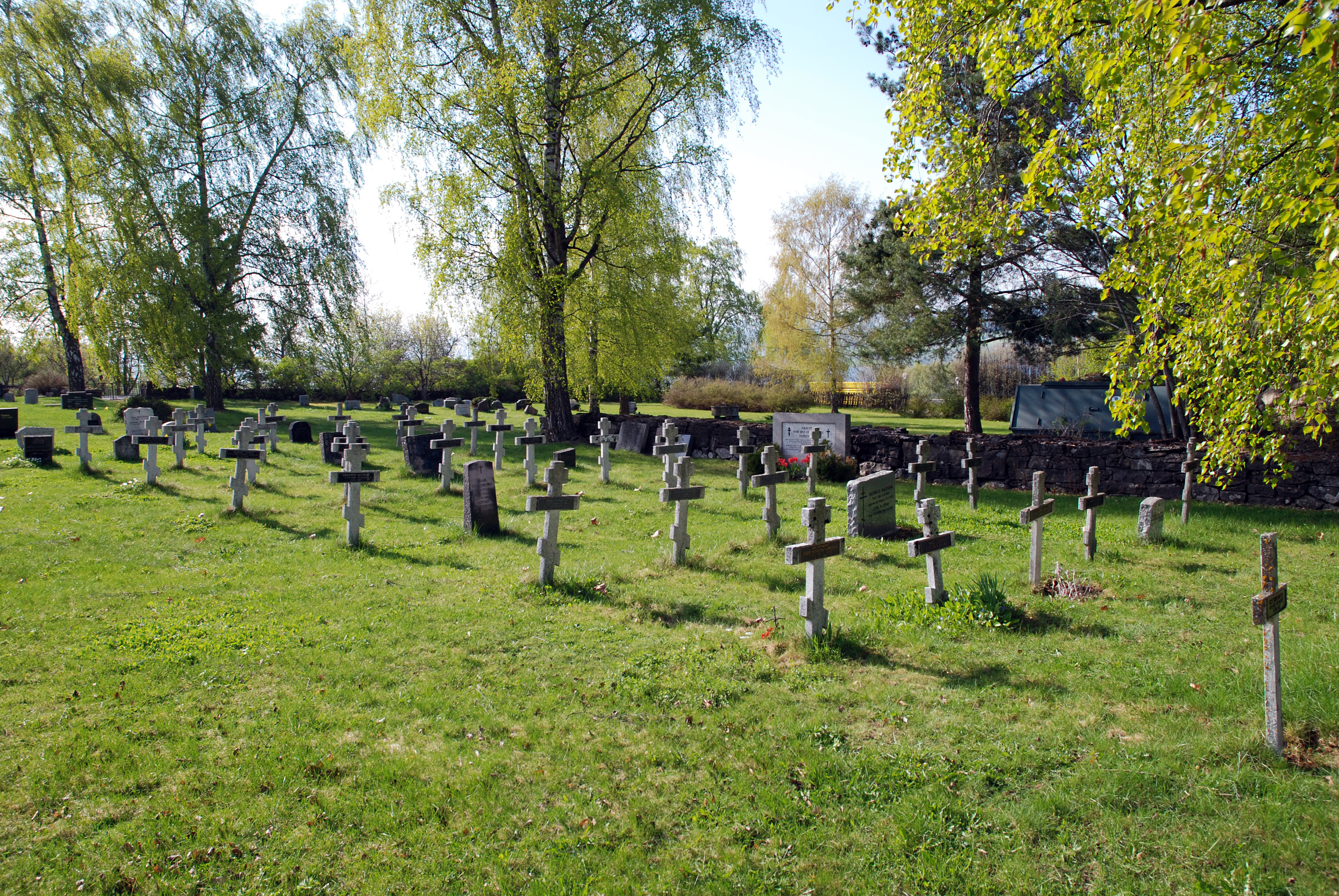 Cemetery for east europian refugees at Helgøya church, in Ringsaker, Hedmark, Norway.